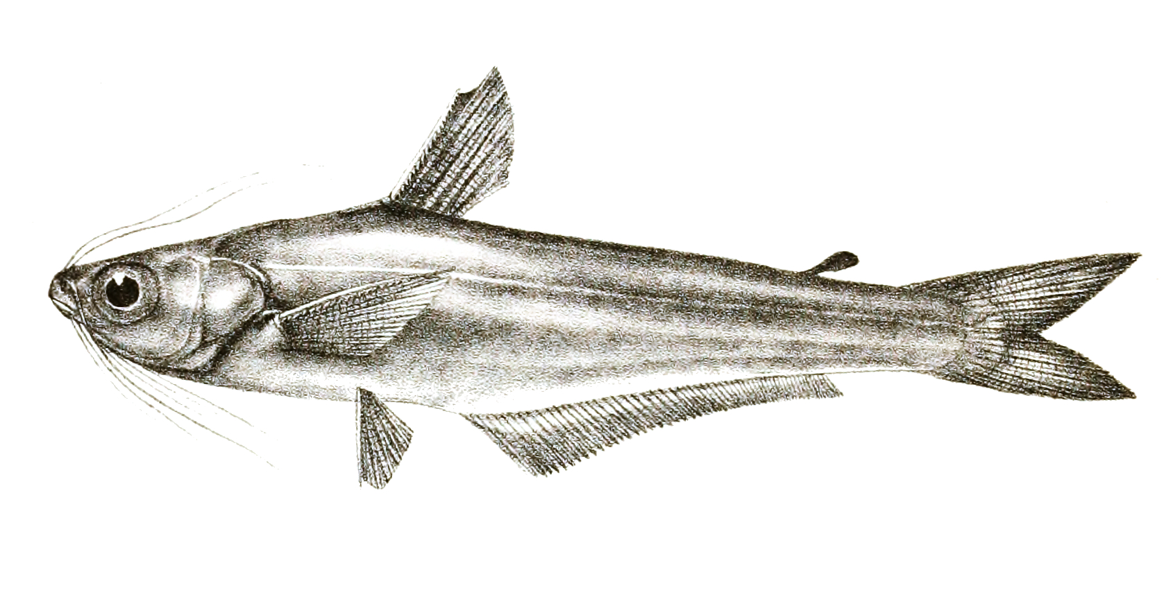 Eutropiichthys goongwaree. The original plates showed the fishes facing right and have been flipped here. Pseudotropius goongwaree